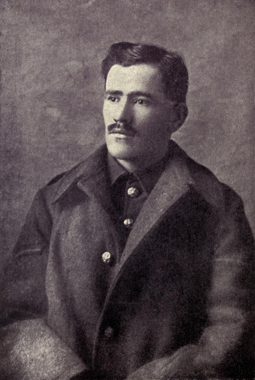 Image of Francis Ledwidge (frontispiece) from The Complete Poems of Francis Ledwidge (1919)